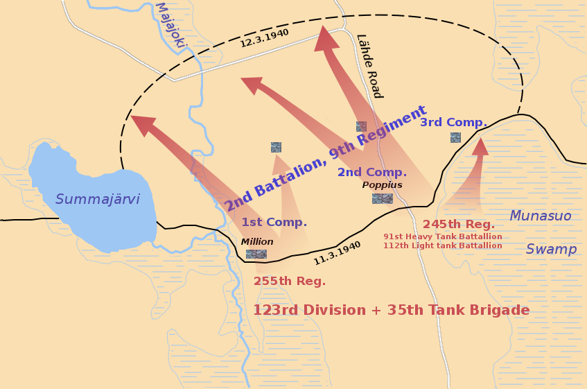 Winter War - Lahde Road Battle - 11/14 February 1940